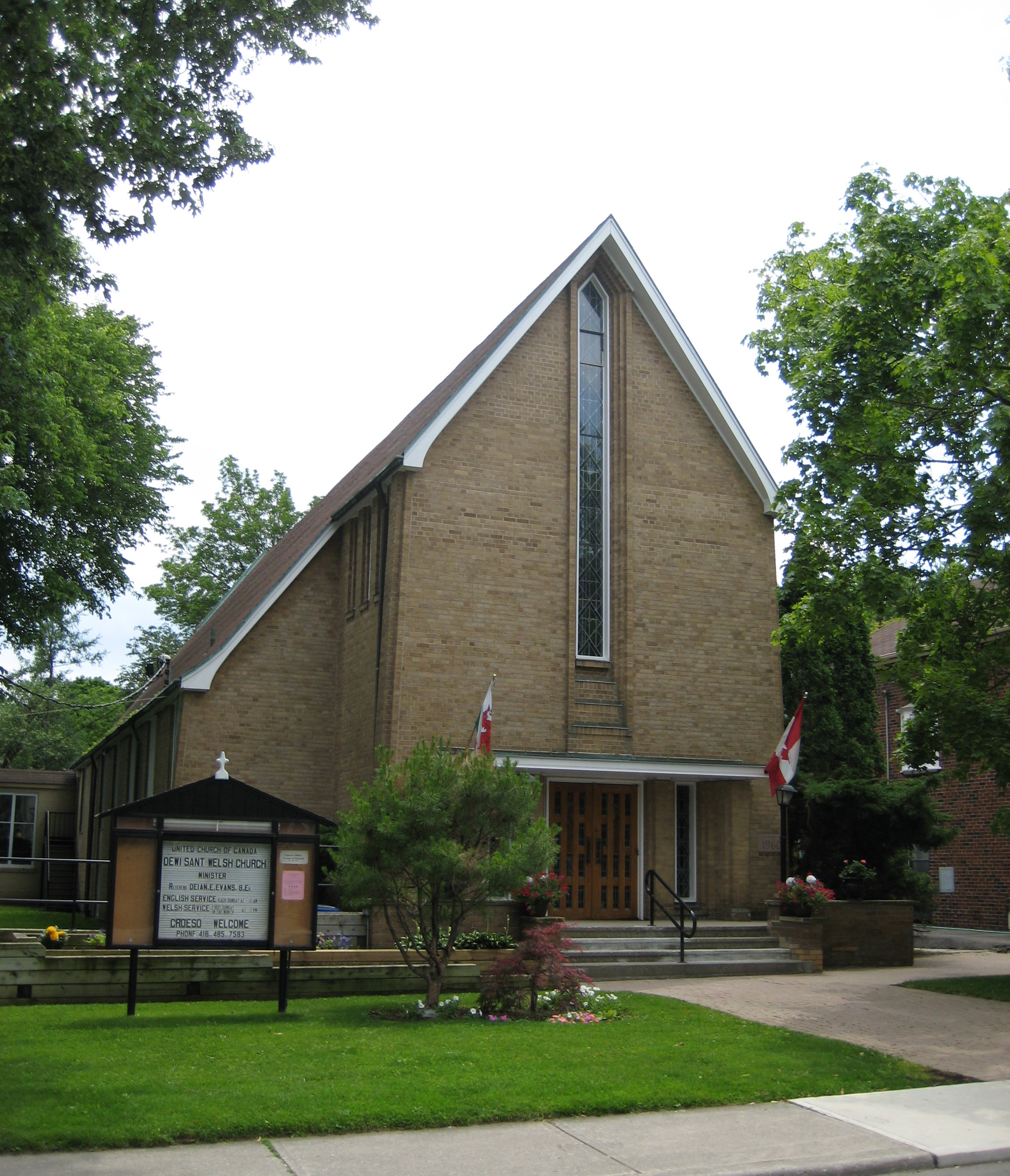 Dewi Sant Welsh United Church, Toronto